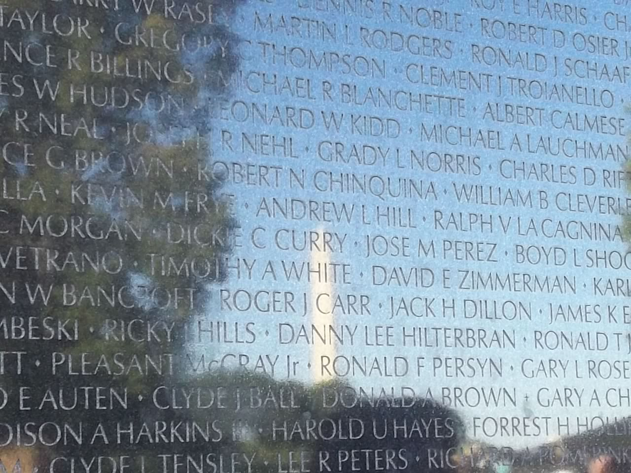 Vietnam Veterans Memorial, West end of Constitution Gardens NW